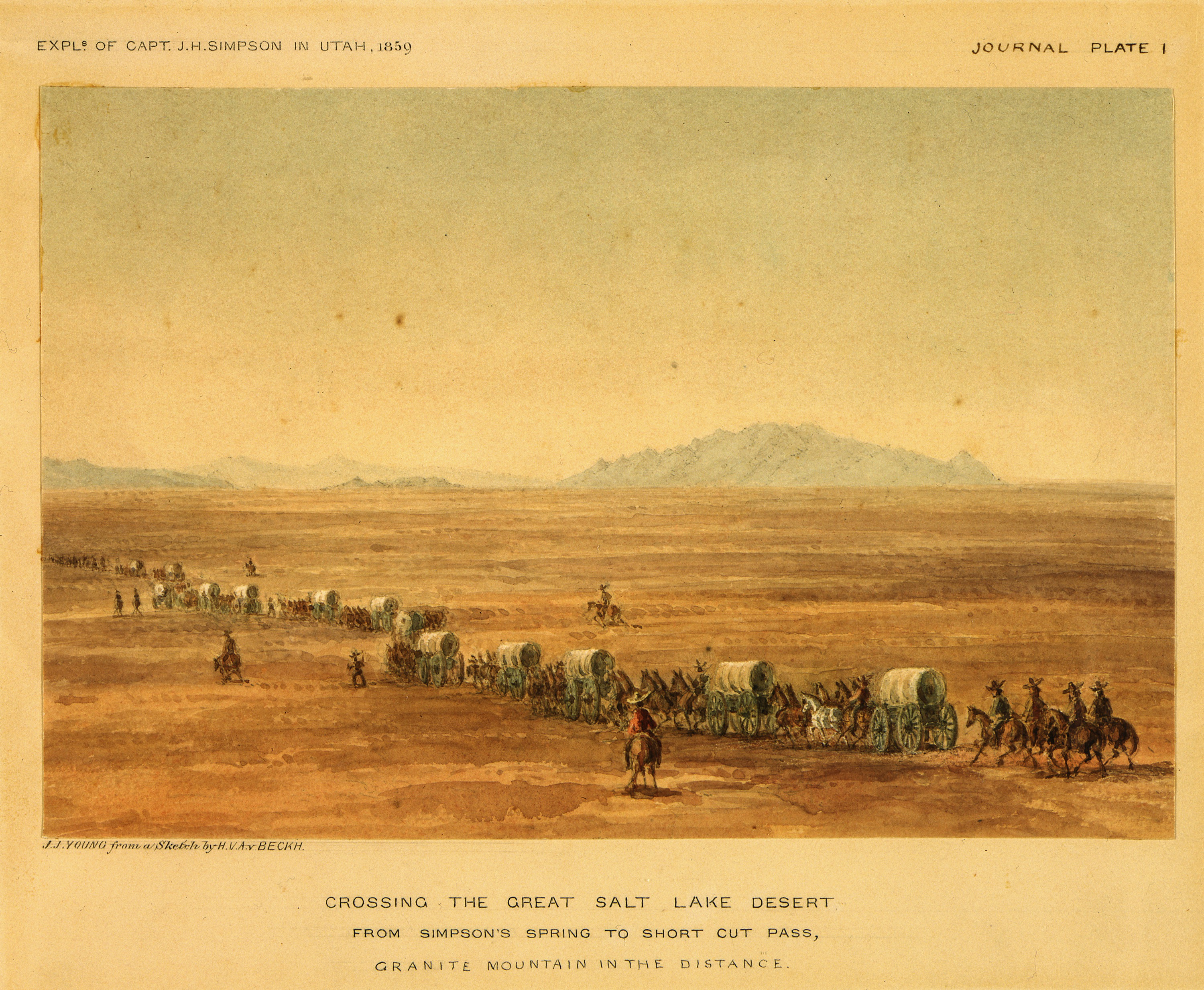 Scope and content: This sketch shows a wagon train moving across the desert. This sketch is Plate I in Lt. J.H. Simpson's 1859 Journal of Explorations in Utah.